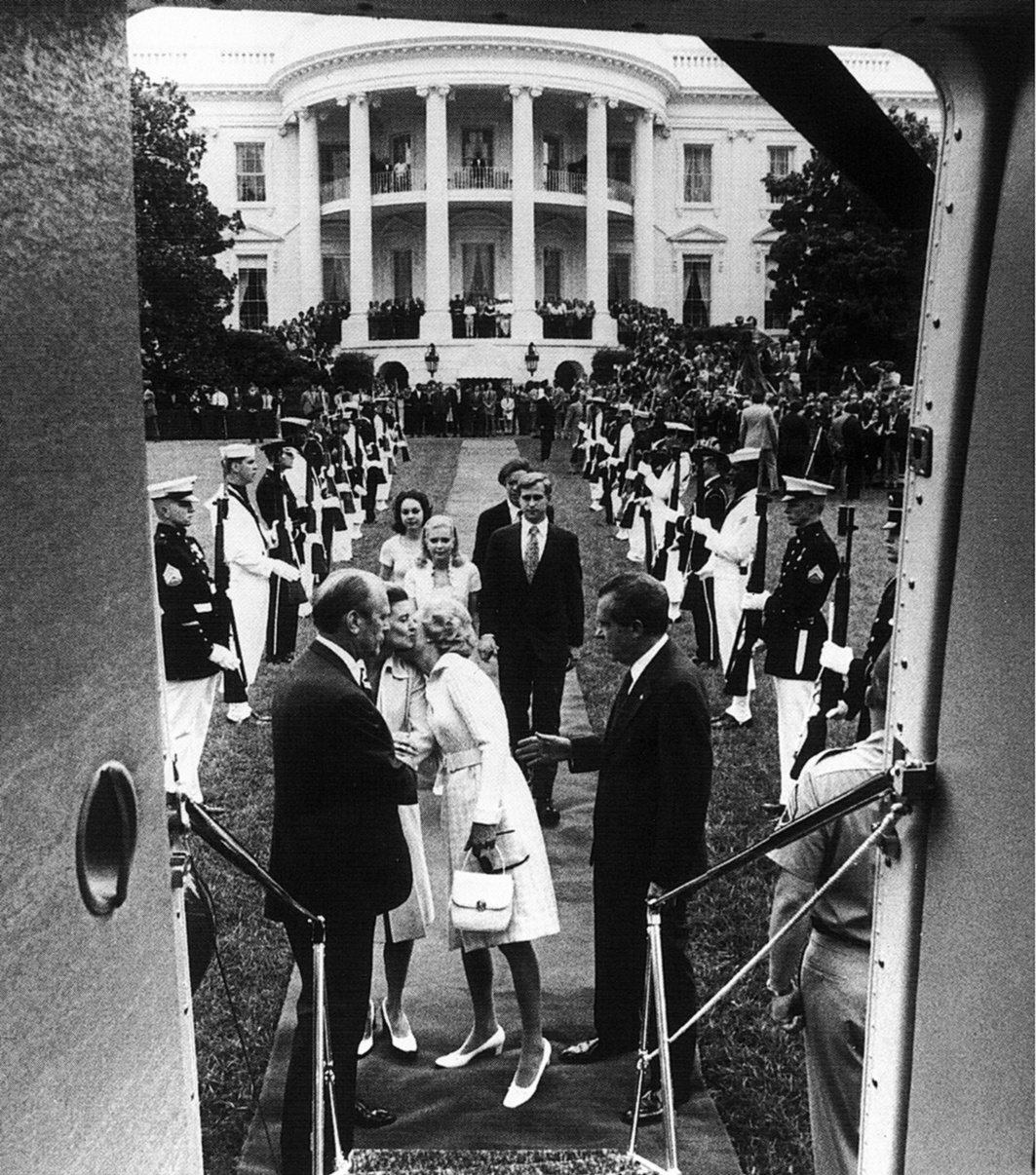 Richard Nixon departing the White House after resigning.